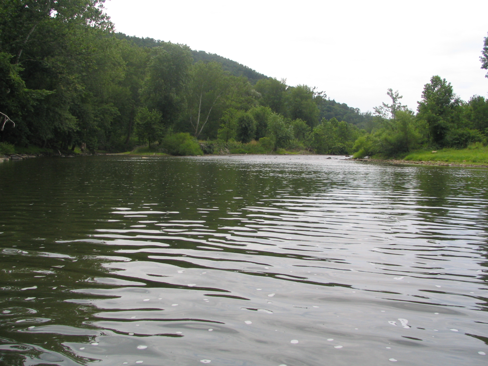 A view from Riddlesburg, PA. Looking up river, south, one mile away from the center of Riddlesburg.